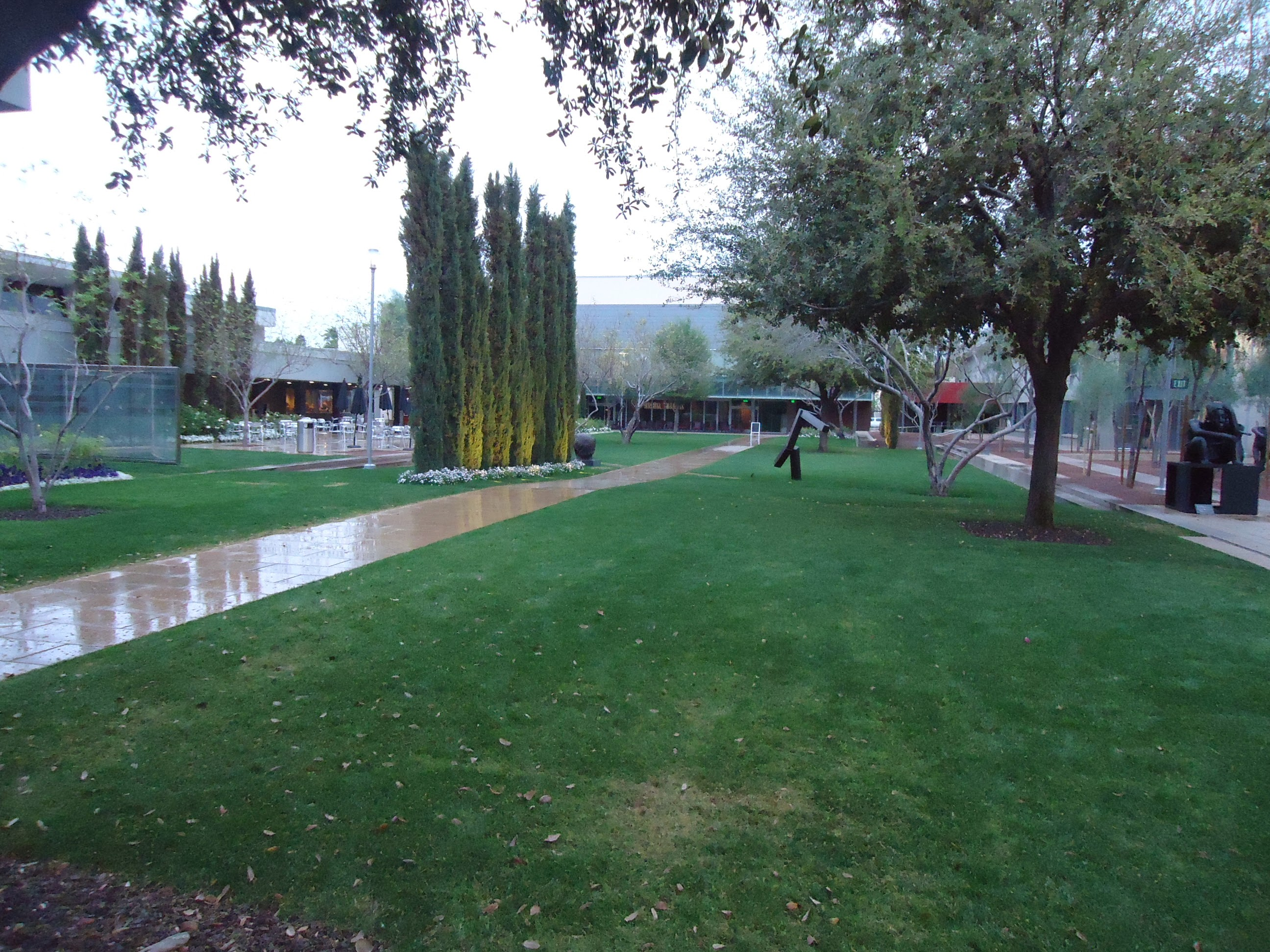 A light rain at the outdoor sculpture garden of the Phoenix Art Museum.